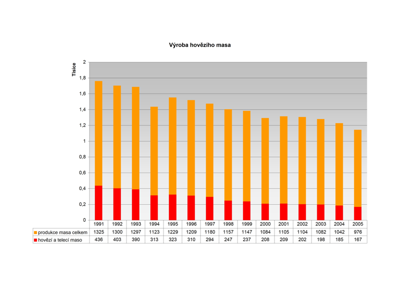 Production of beef including veal in thousands in life mass in Czech.